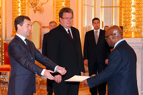 THE KREMLIN, MOSCOW. Ambassador of the United Republic of Tanzania Jaka Mwambi presents his letter of credentials to the President of Russia.